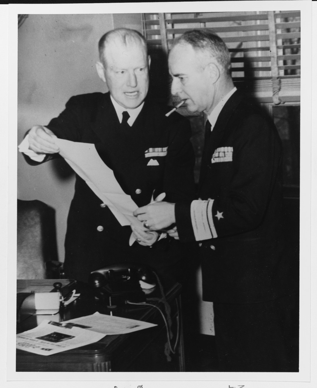 Rear Admiral Robert W. Hayler, USN and Captain Robert B. Simons, USN, Commander of the Naval Torpedo Station at Alexandria, Virginia examines paperwork at circa 1945. Hayler was station commandant 1939-42.